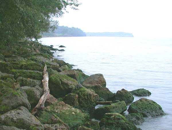 View of Lake Ontario along the shore of Lakeside Beach State Park west of Rochester (taken Sept. 25, 2004) © 2004 Matthew Trump